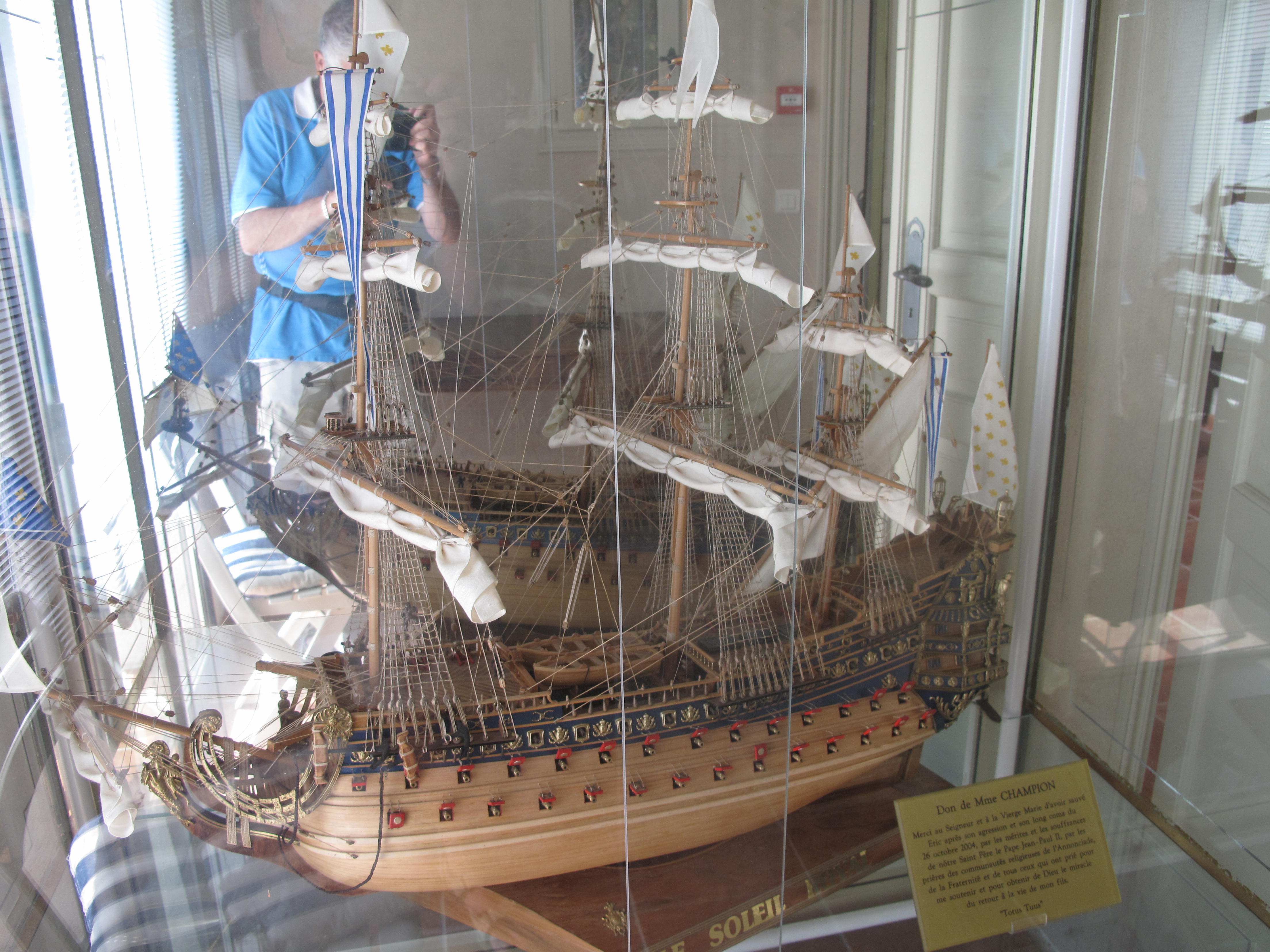 Model of the French ship Soleil-Royal among the ex-votos of the Annonciade monastery : Menton (Alpes-Maritimes, France).